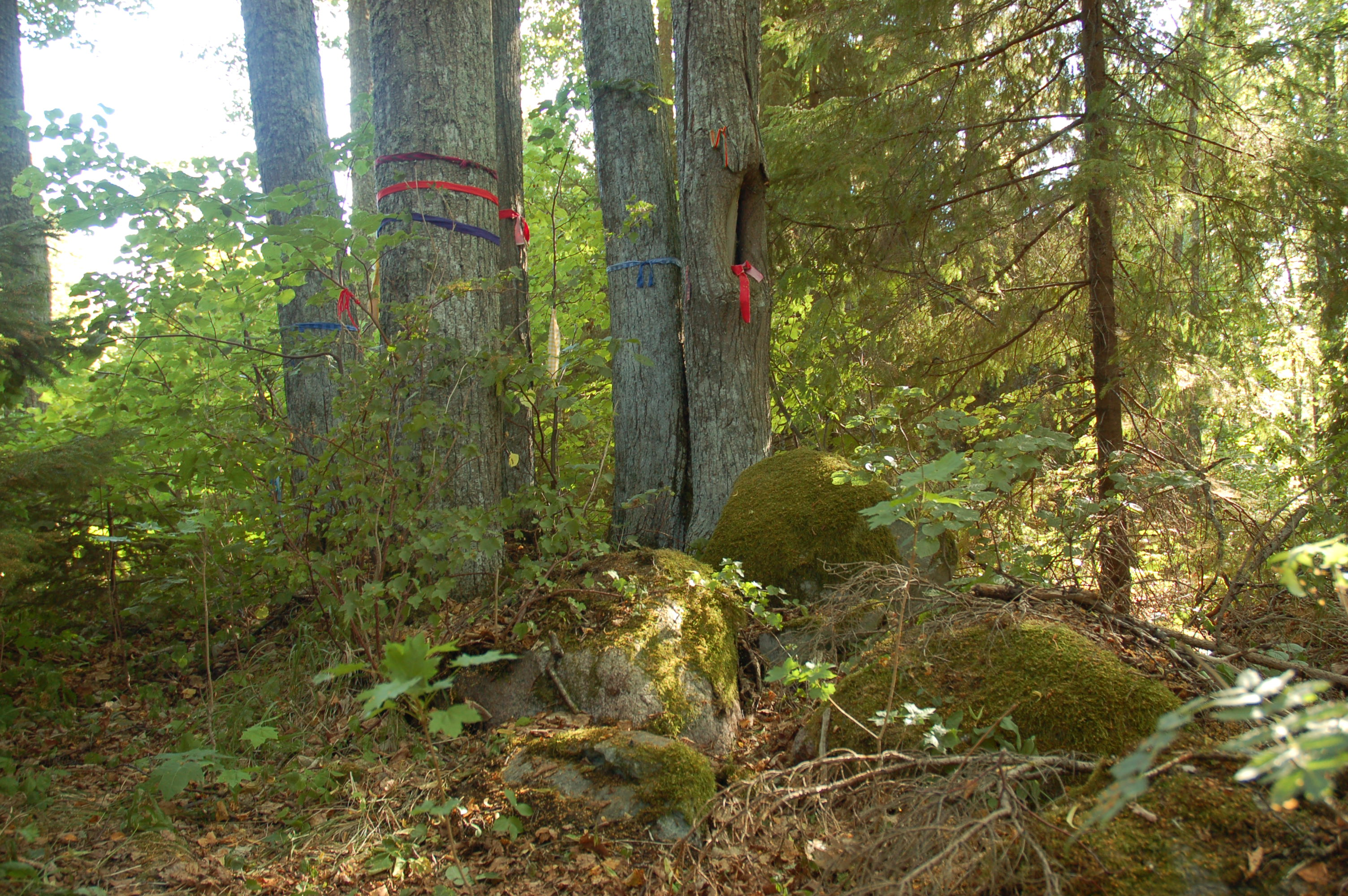 Sacred linden circle in Vihula, Estonia